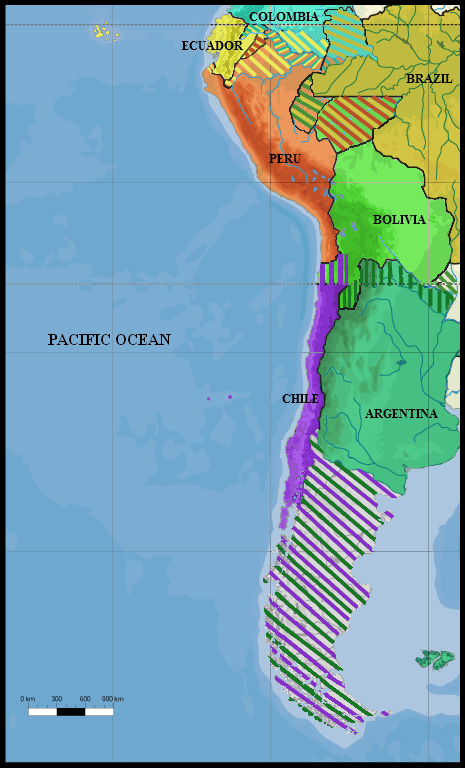 South America in 1879, prior to the start of the War of the Pacific. Based on the following maps: File:Map of the War of the Pacific.en.svg: Atacama border dispute map. File:B-C-E-P claims and reivindications.jpg: Amazon border dispute map. File:Ecuador-peru-land-claims-01.png: Clearer description of Ecuador's claims on Peru. File:Republic of the New Granada 1852.jpg: Clearer description of Colombian, Ecuadorian, and Peruvian positions. File:PERU MAPA 1865.JPG: Description of Peruvian territorial posessions and claims in 1865. File:Territorios perdidos de Bolivia.png: Bolivian territorial claims.